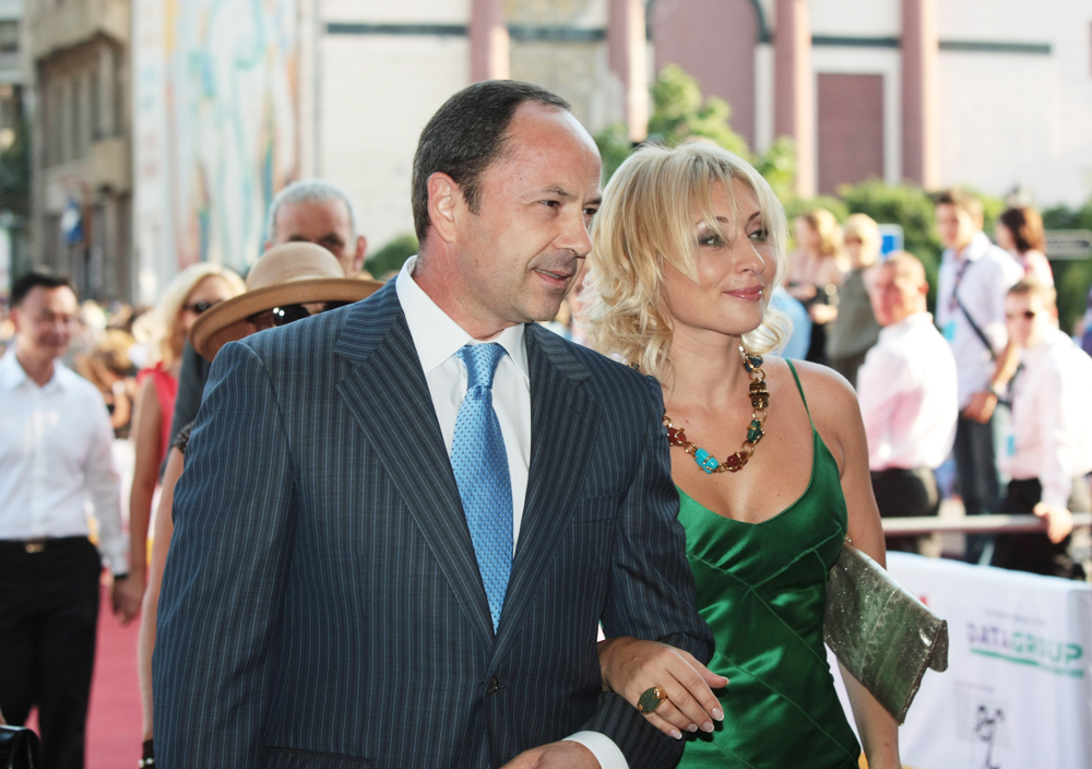 Sergei Tigipko and his wife Viktoriya Tigipko